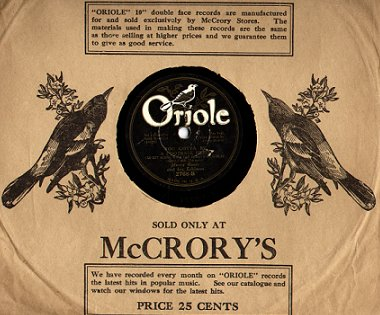 Paper sleeve by american record label Oriole Records